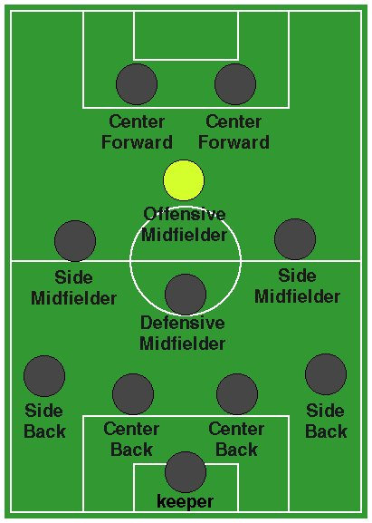 Position of OffensiveMidfielder